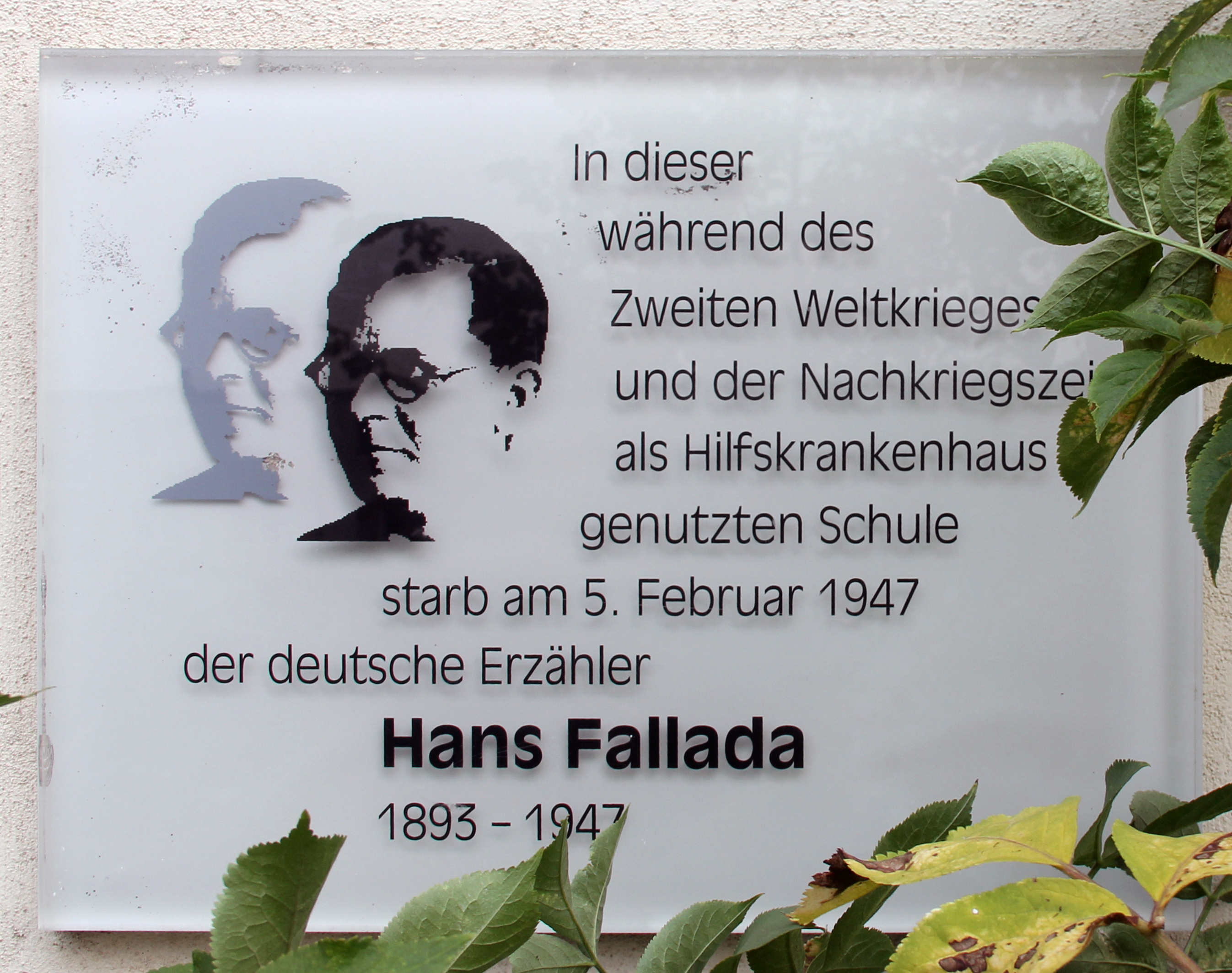 Memorial plaque, Hans Fallada, Blankenburger Straße 21, Berlin-Niederschönhausen, Deutschland